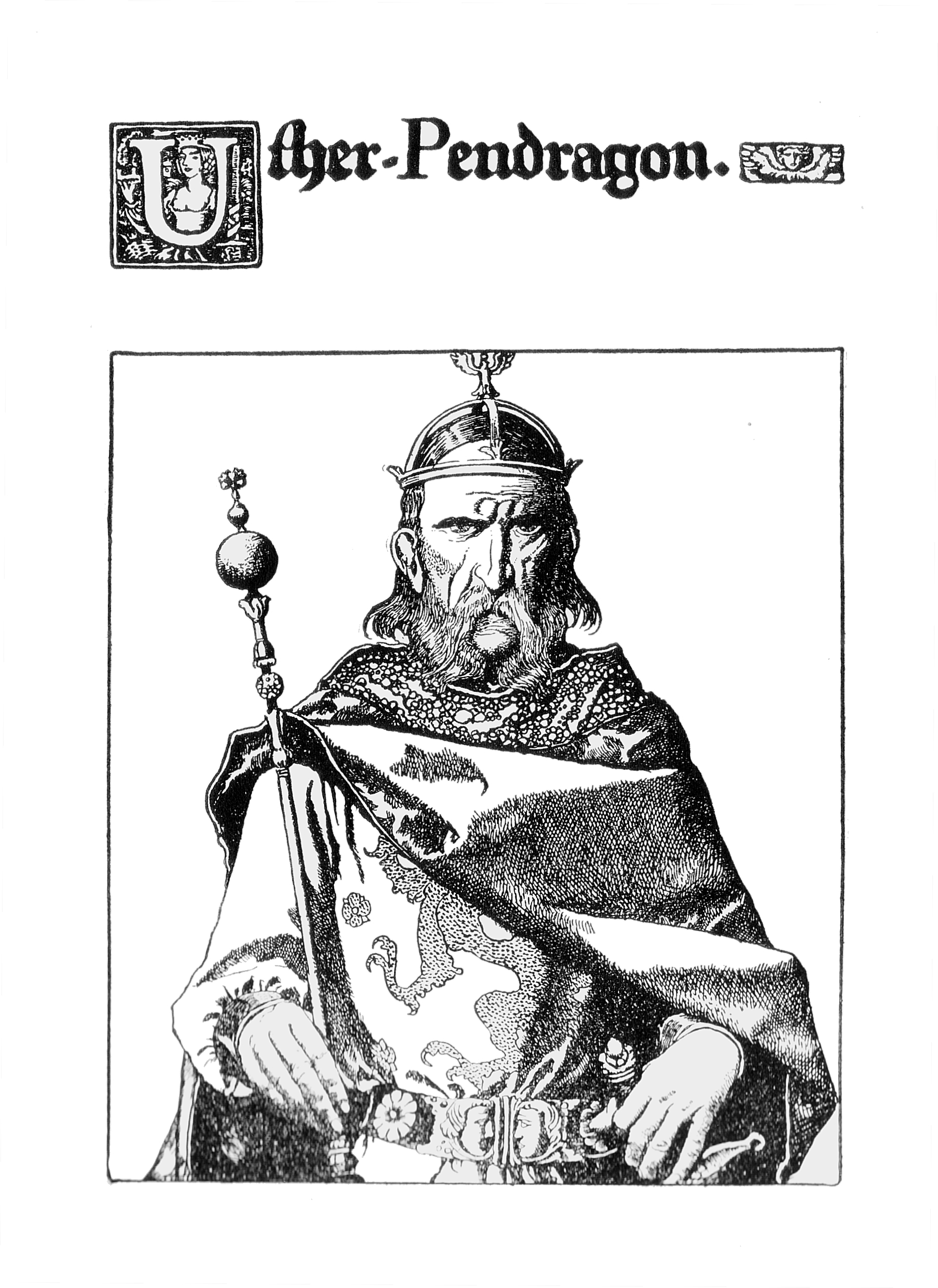 Uther Pendragon, father of King Arthur, by Howard Pyle, from The Story of King Arthur and His Knights by Howard Pyle, Charles Scribners, New York, 1903.